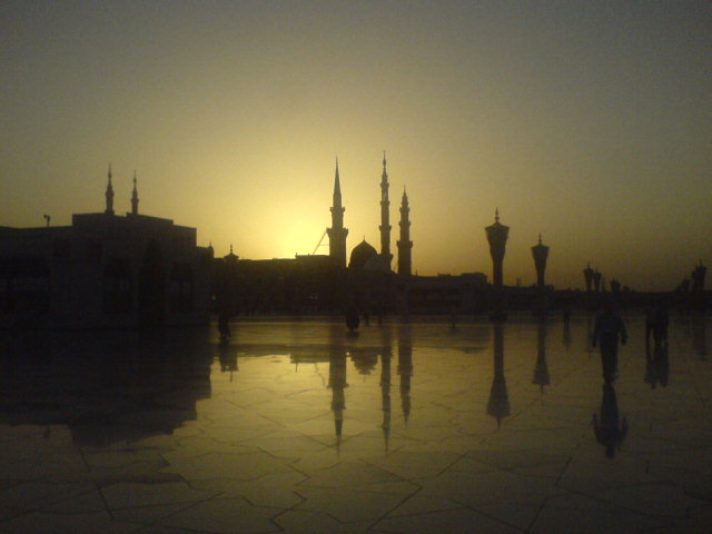 Sun rises over al-Masjid al-Nabawi (the Prophet's Mosque) in Medina. Took the photo while leaving the mosque right after the Fajr prayer.